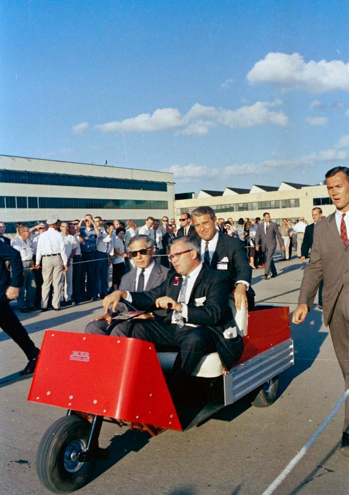 Director of the George C. Marshall Space Flight Center (MSFC), Dr. Wernher von Braun, rides in the back of a motorized cart during President John F. Kennedy's tour of the McDonnell Aircraft Corporation plant in St. Louis, Missouri. Chief scientific adviser to the Ministry of Defence of Great Britain, Sir Solly Zuckerman, rides in front seat; driver of cart is unidentified. Also pictured: White House Secret Service agents, Bill Duncan and Roy Kellerman. McDonnell plant employees line the tour route. President Kennedy visited the plant as part of a two-day inspection tour of National Aeronautics and Space Administration (NASA) field installations. Lambert-St. Louis Municipal Airport, St. Louis, Missouri